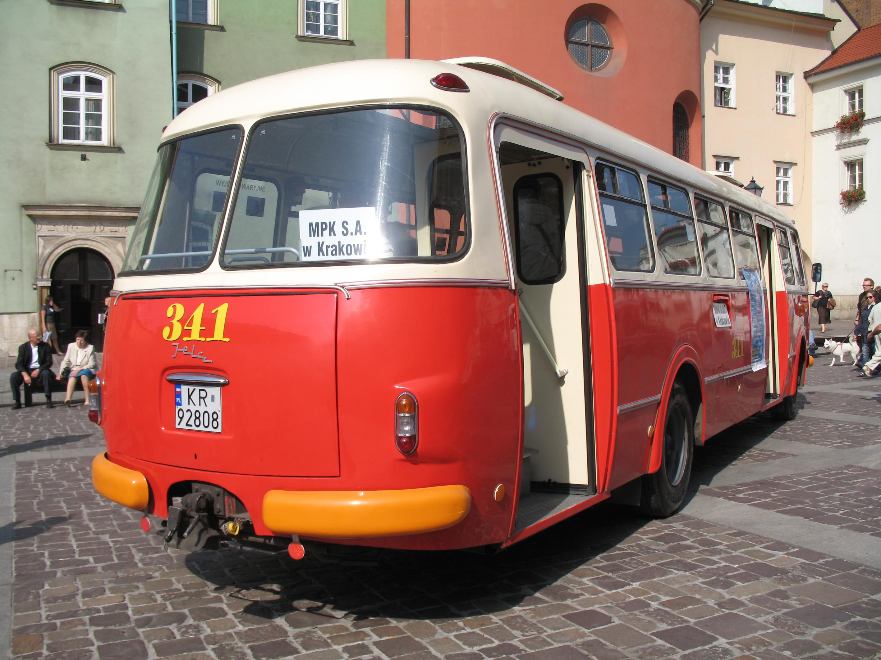 Jelcz 272 MEX bus (#341) in Kraków, Poland. Built 1971 (Jelcz 043), rebuilt 2002, MPK Kraków operator.